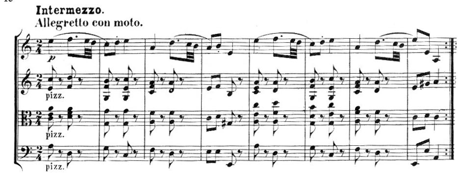 The theme of the Intermezzo movement of Mendelssohn's opus 13 string quartet.